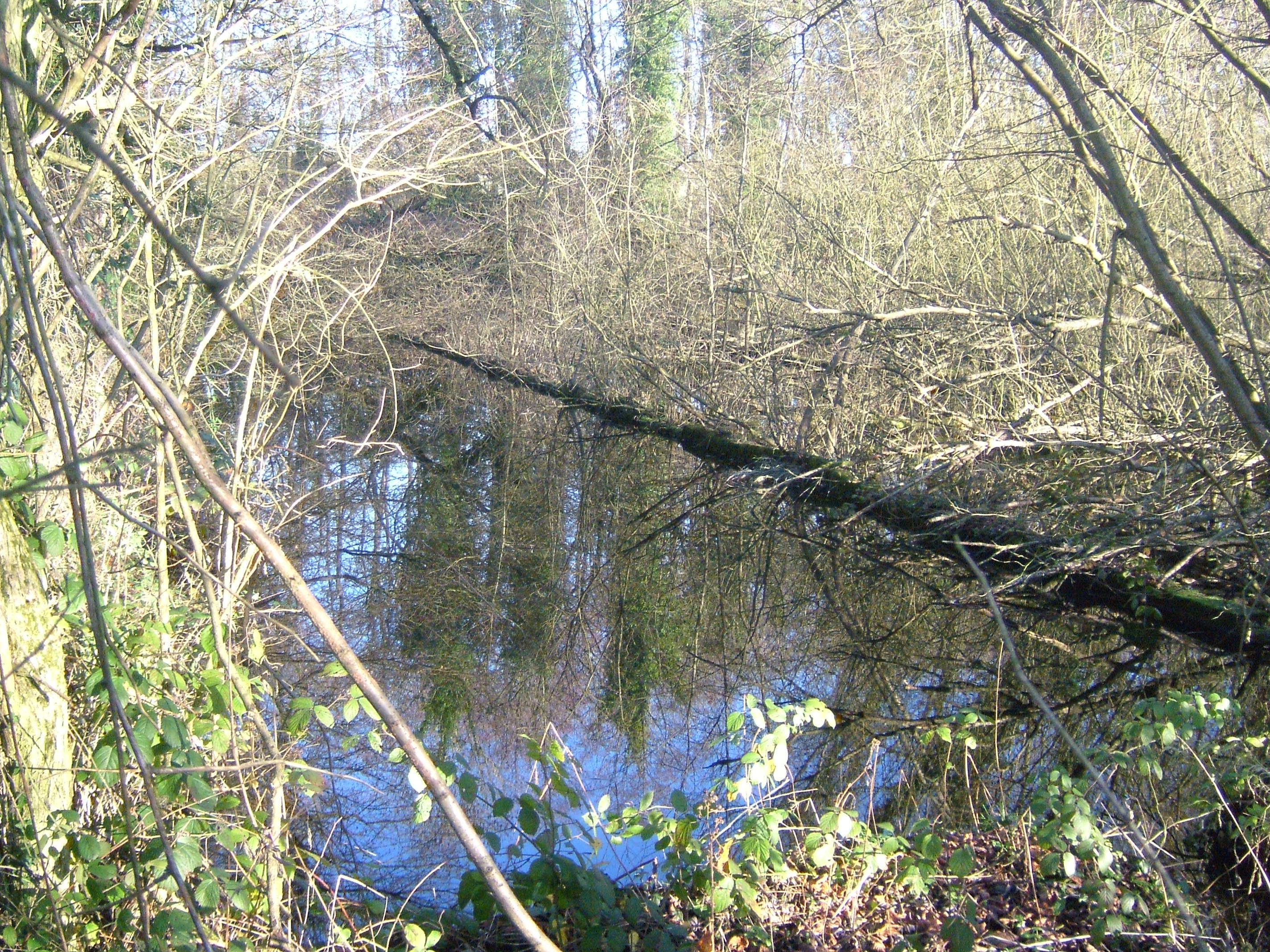 Basted Mill was a paper mill driven by water from the River Bourne in the parish of Platt Kent, England, to the south of Gravesend, to the east of Sevenoaks. It is now the name of a group of houses. Former workings downstream from Plough Lane, close to the site of John's Mill.